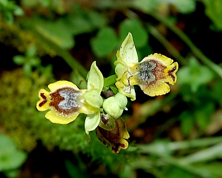 Ophrys lutea subsp. minor (Synonyms = Ophrys sicula) Riserva naturale dello Zingaro